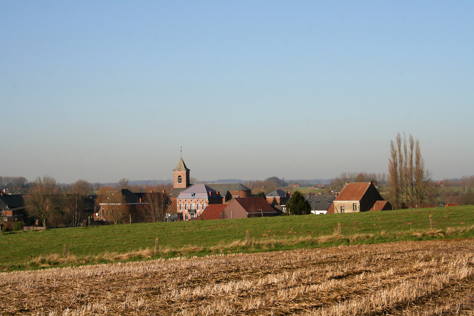 Ostiches (Belgium), the town viewed from the Flobecq road.